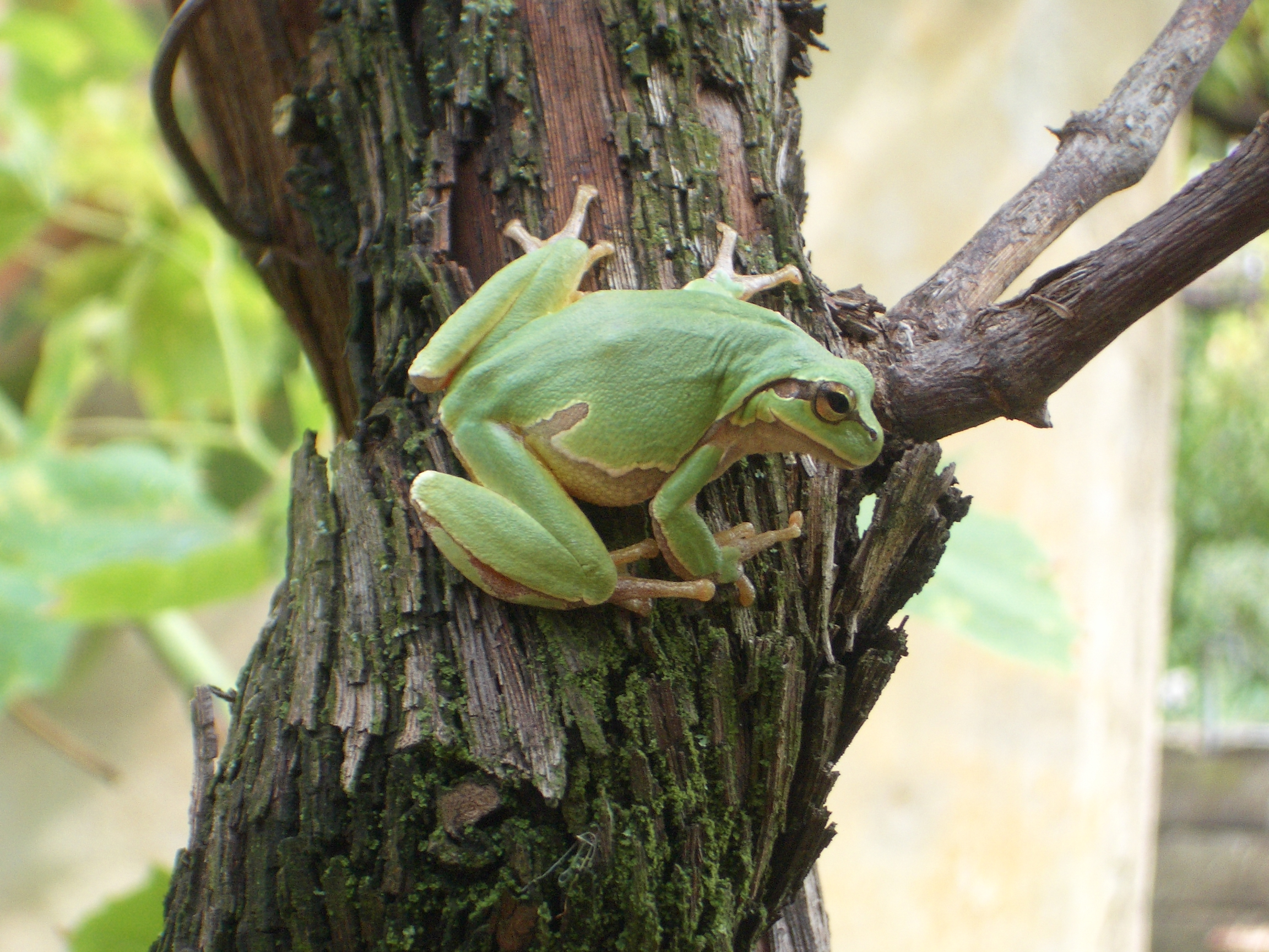 Subject: Common European Treefrog (Hyla arborea)Author: Radoslav KovatchevLocation: Hissar, Bulgaria